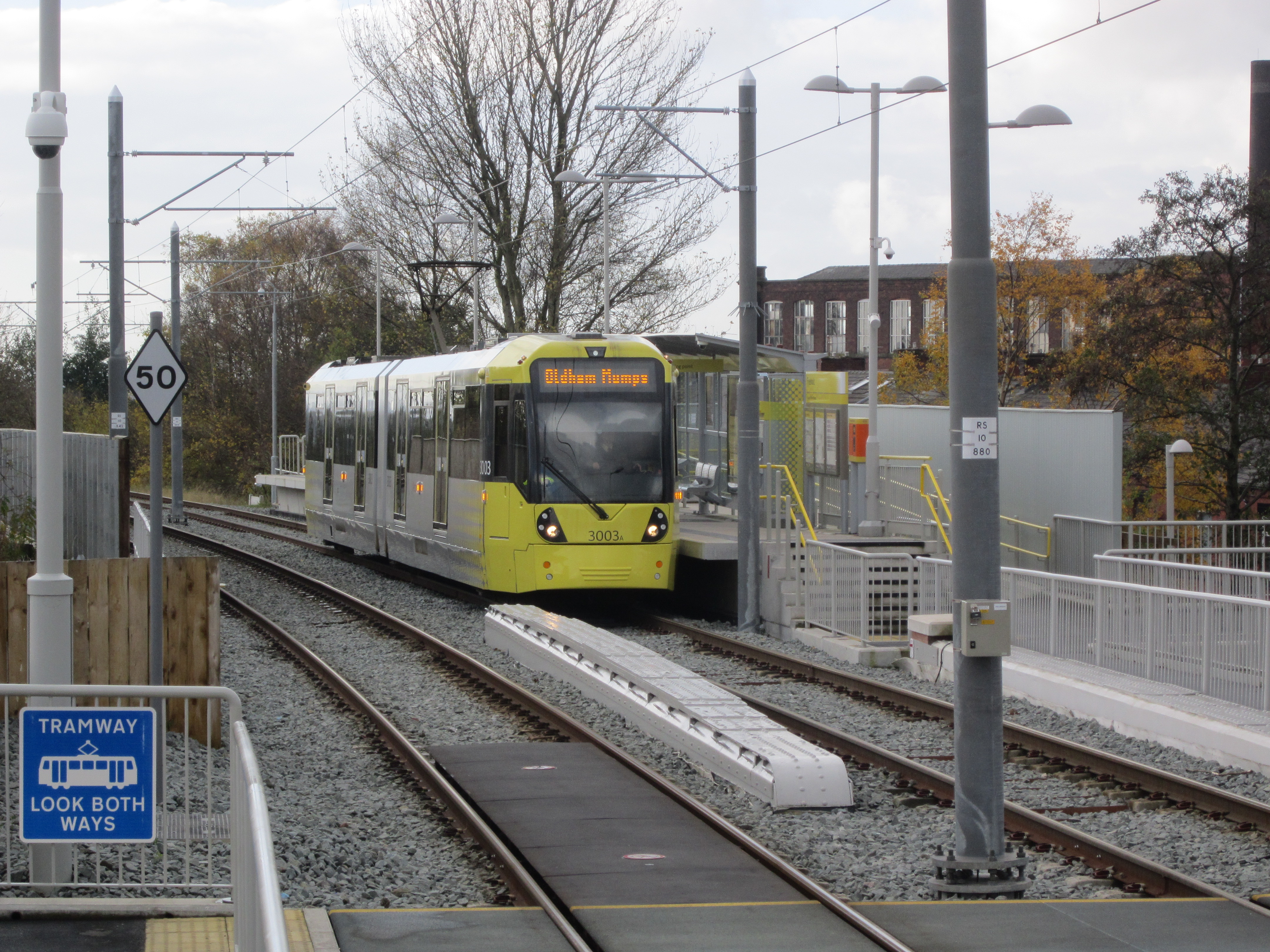 Photo taken at Freehold Metrolink station, Chadderton, Greater Manchester, England.